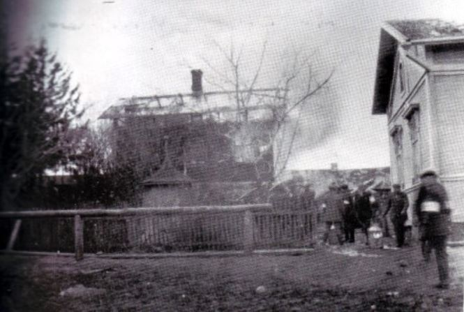 1918 Finnish Civil War, Battle of Lempäälä: house on fire after a Red Guard artillery strike. March-April 1918.